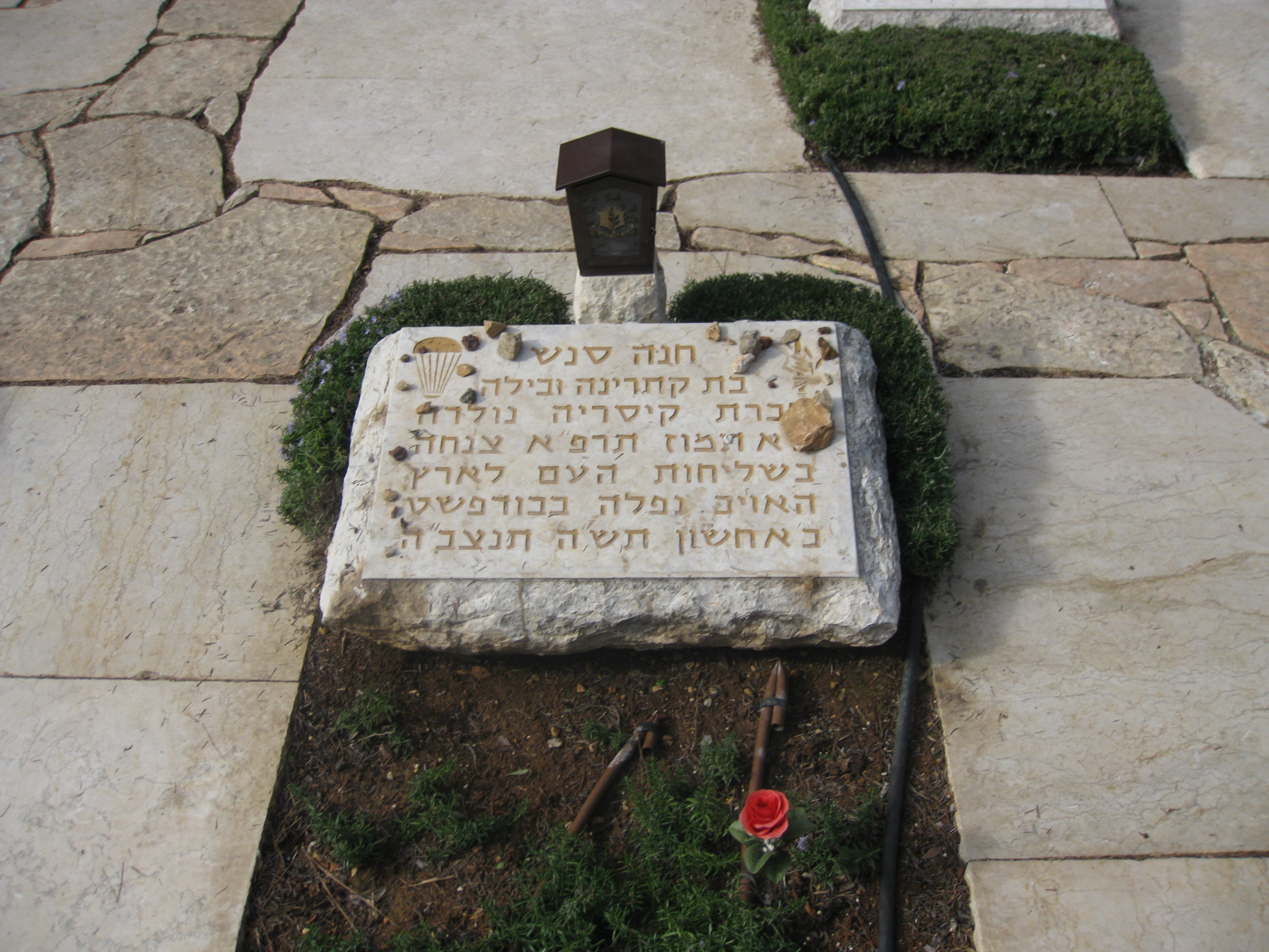 Memorial for the Yeshuv Paratroopers- Grave of Hana Senesh